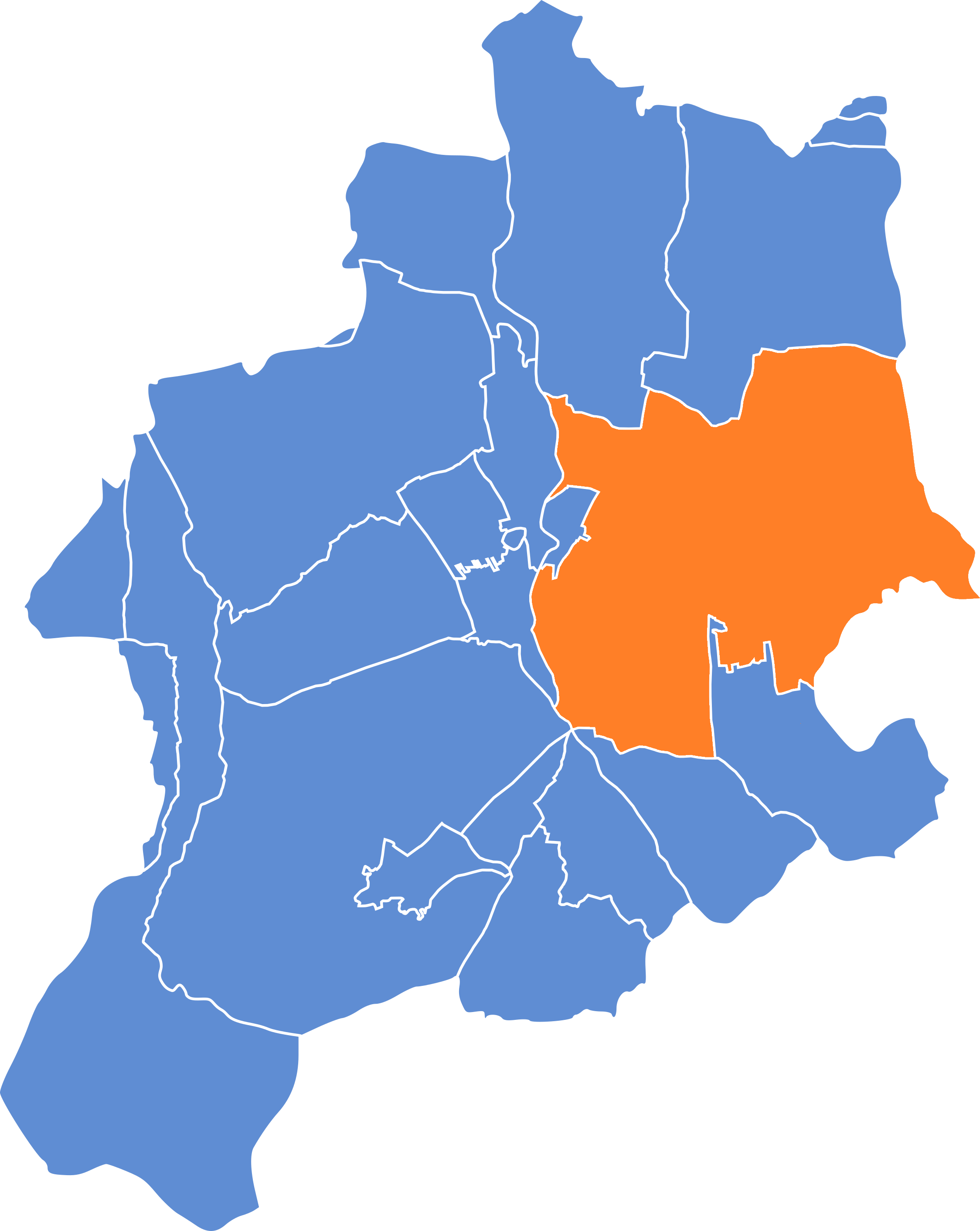 Lipnik on the maps of Bielsko-Biała.